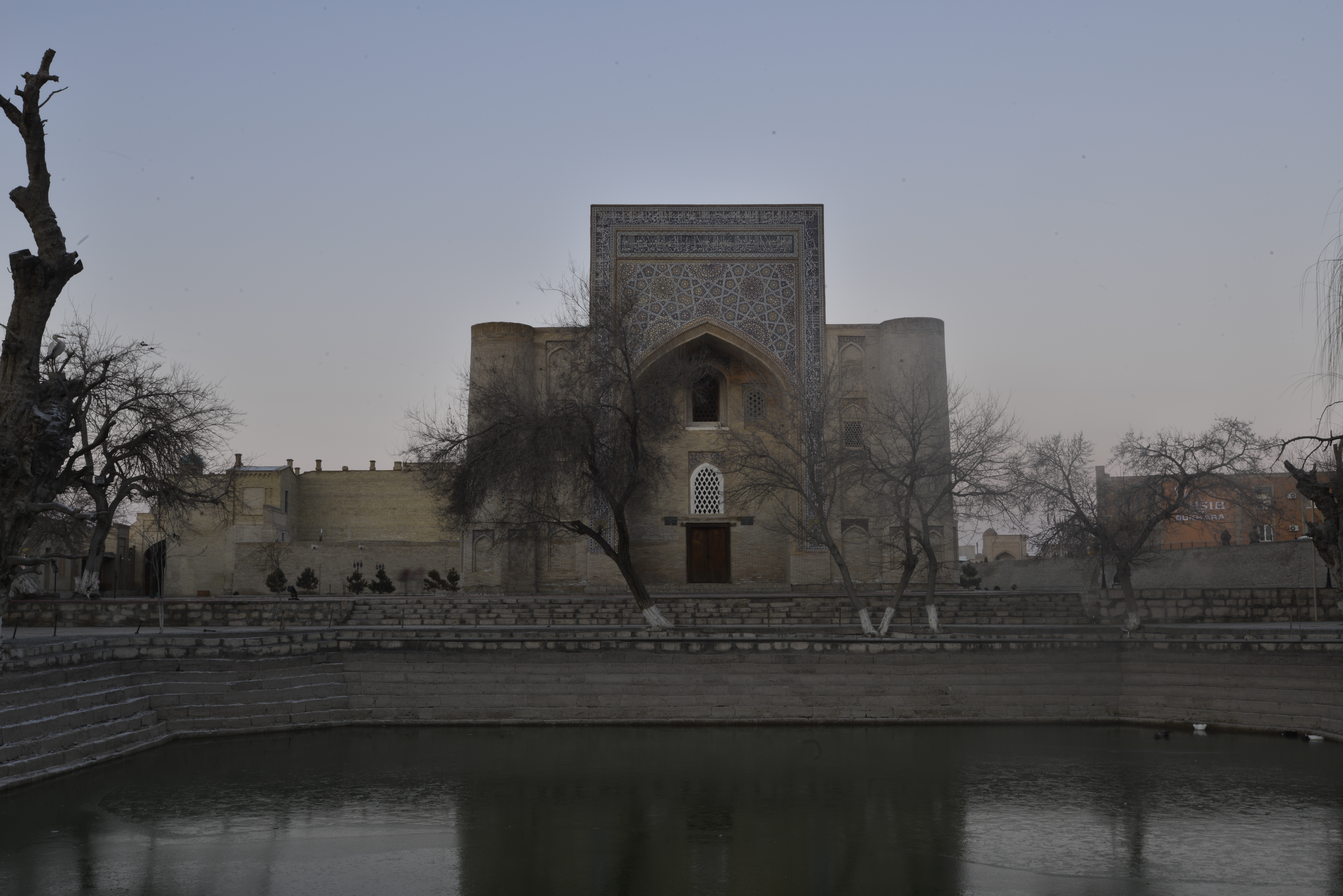 The Khanaka of Nadir Divan-Beghi, Lyab-i Hauz